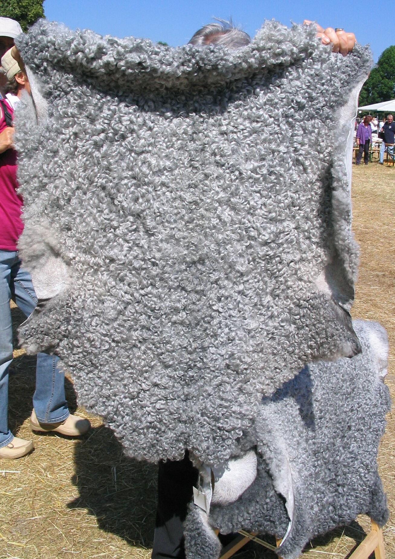 Gotland-sheep skin, dyed. Germany.